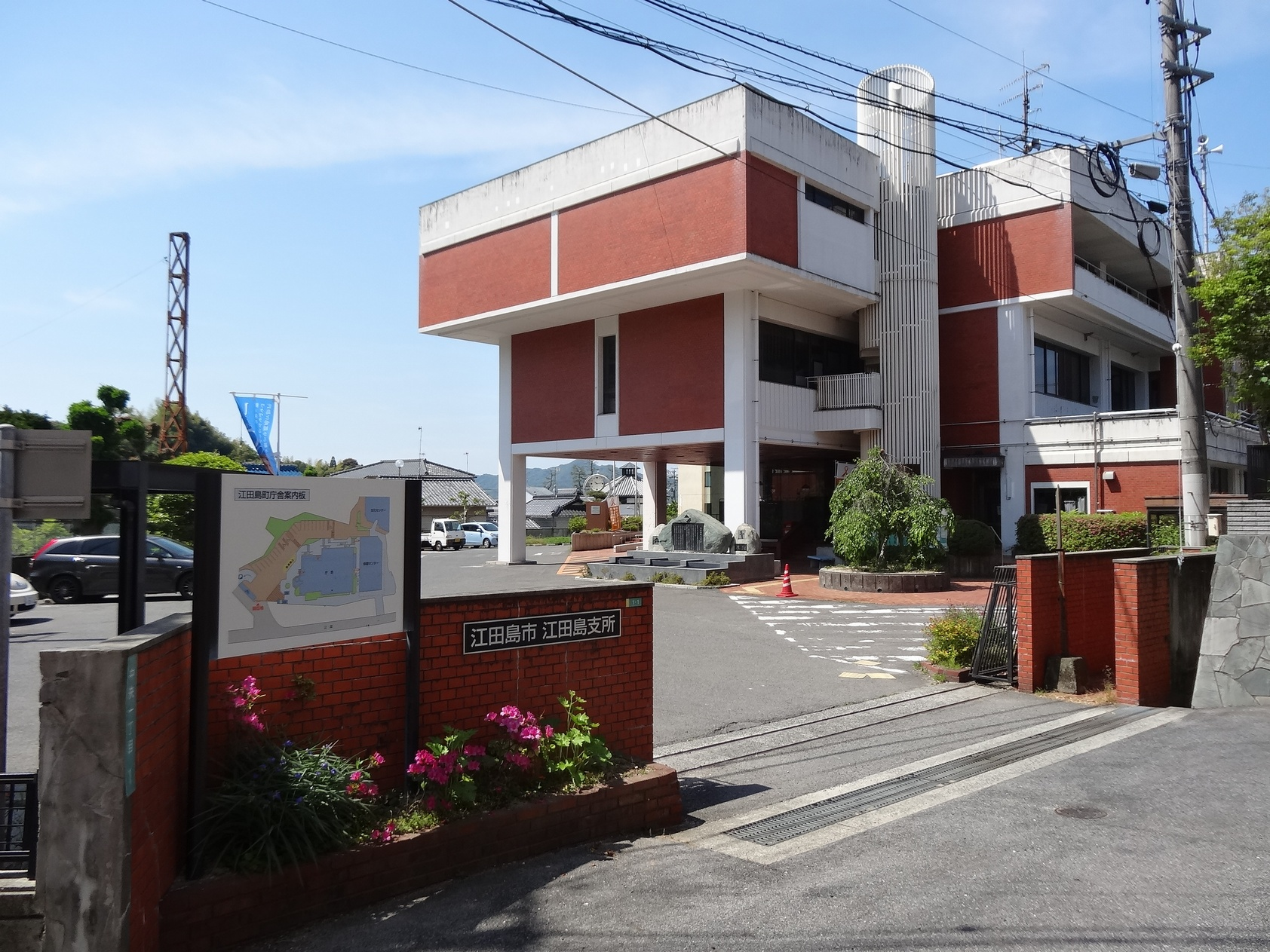 Etajima City Etajima Branch, former Etajima Town Office (May, 2014 - Hiroshima Prefecture, Japan)